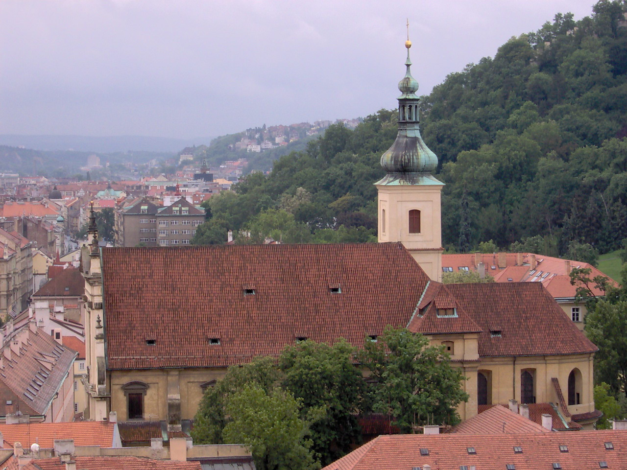 Church of Our Lady Victorious in Karmelitská street, Lesser Town, Prague